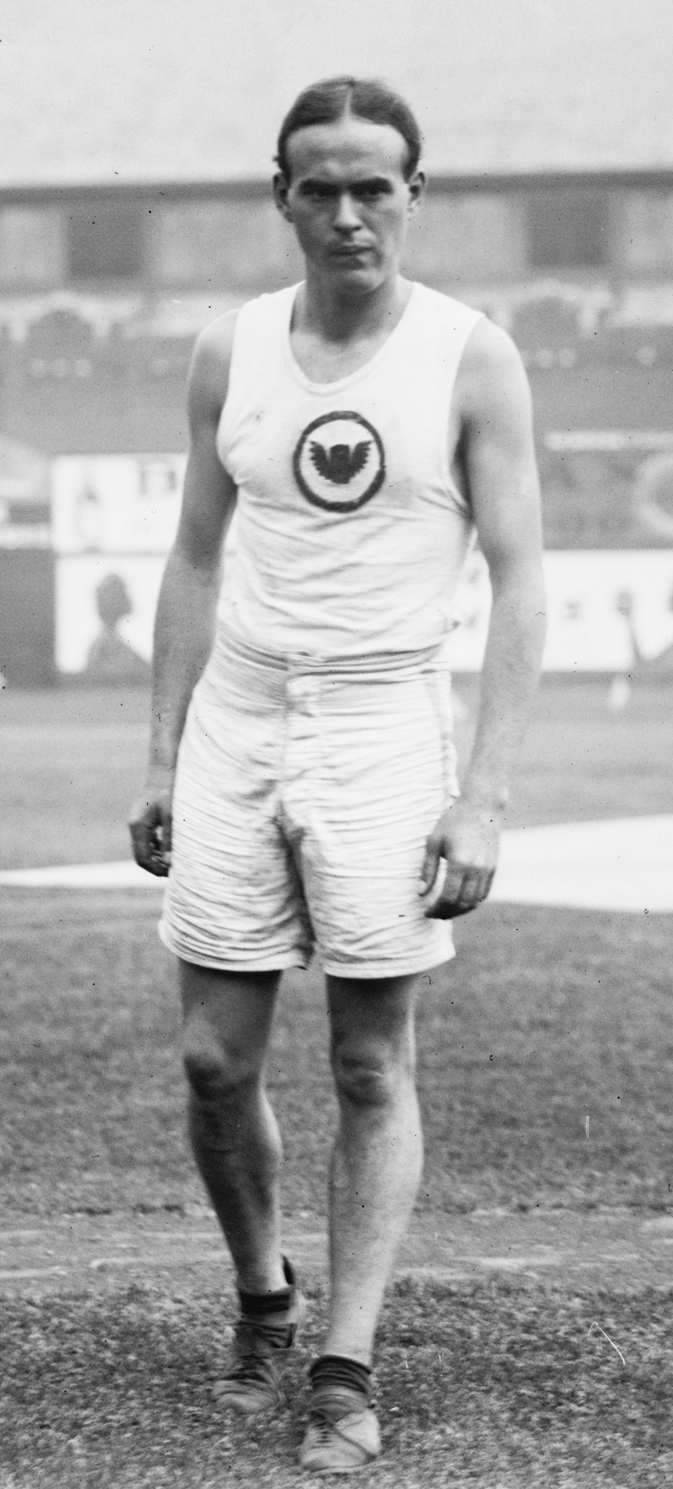 John J. Reynolds, wearing the Winged Fist of the Irish American Ahletic Club, (Exact date and location unknown).